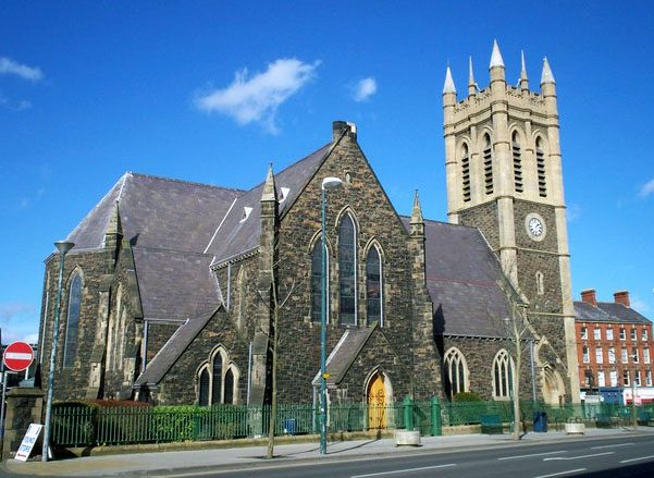 Saint Mark's Church of Ireland in Portadown, County Armagh, Northern Ireland